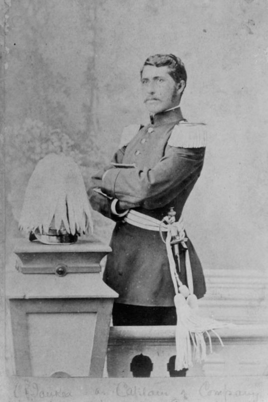 Curtis Piʻehu Iʻaukea (1855–1940).